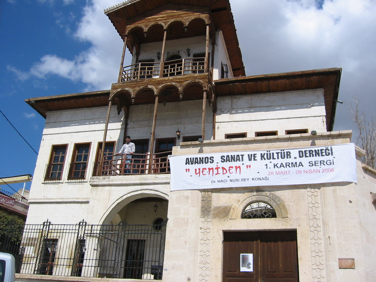 Hacı Nuri Bey Konağı, Avanos